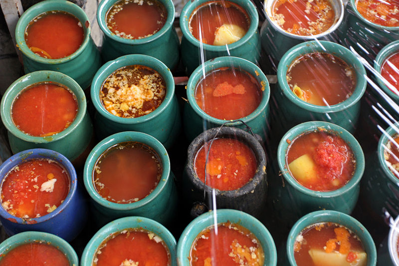 Dizi - Garbanzo beans, dried white beans, lamb meat, peeled onions, tomatoes, turmeric (zardchube), salt and pepper to taste and dried limes (limu ammani) Contents 1 Note from Persian Wikipedia 2 Copyright notice from Persian Wikipedia 3 Licensing 4 Licensing 5 Original upload log Note from Persian Wikipedia I'd like to use this on English Wikipedia, but I can't transfer it to Commons because it doesn't have a valid verifiable license. Why not? the uploader says it is PD-self. :) Raamin ب ۱۶ ژوئن ۲۰۰۸، ساعت ۰۳:۰۴ (UTC) Copyright notice from Persian Wikipedia Licensing من، ایجادکنندهٔ این اثر و دارندهٔ حق تکثیرش، آن را در مالکیت عمومی قرار می‌دهم. این مربوط به تمام جهان است.